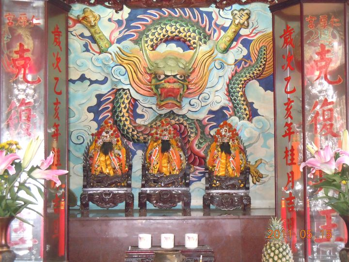 Renhou Temple, Madou District, Tainan.